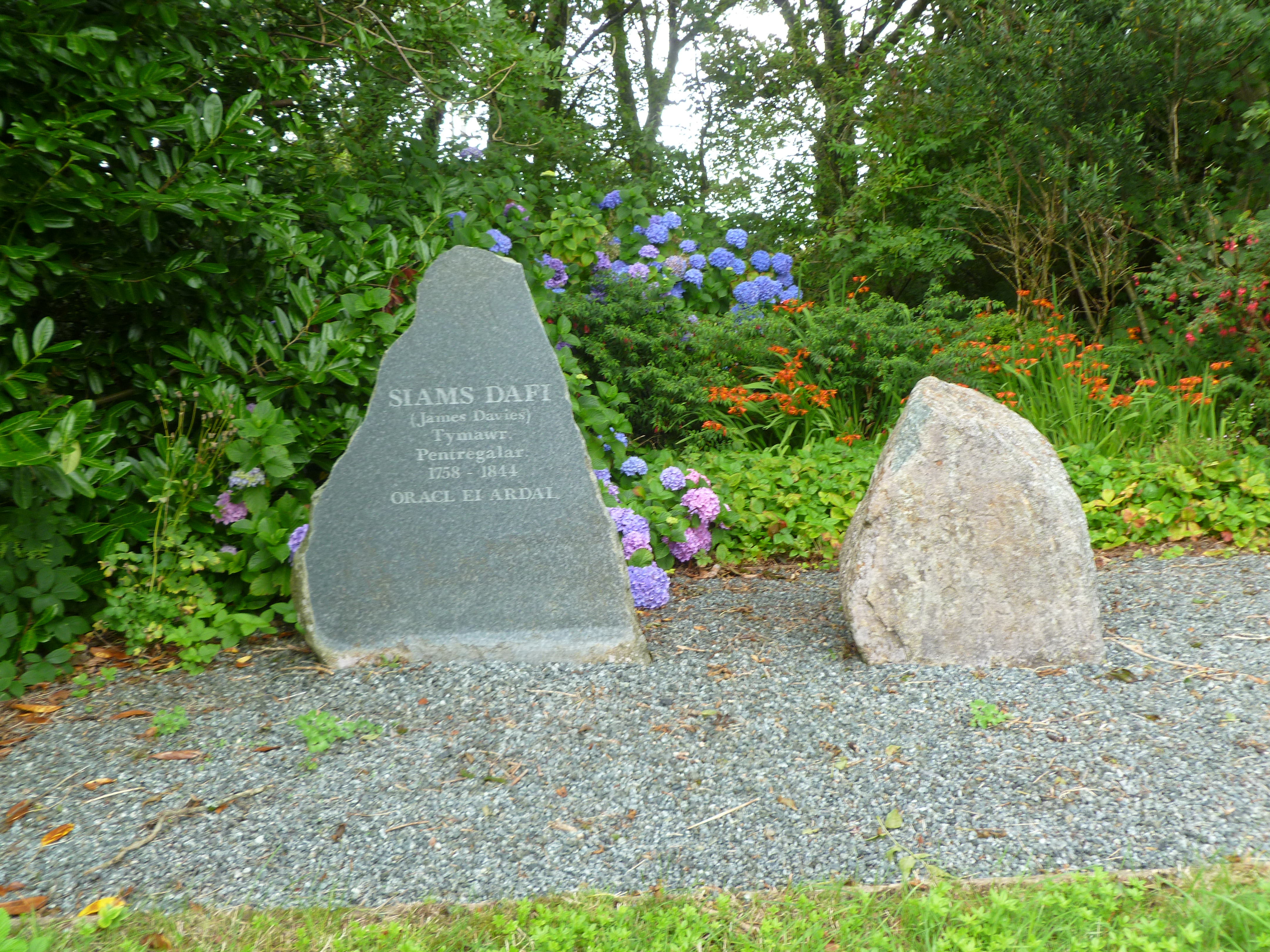 Memorial to Siams Dafi (James Davies), preacher and local stalwart, on the A478 at Pentre Galar opposite to the inn, Ty-mawr, that he built and ran in the 19th century.